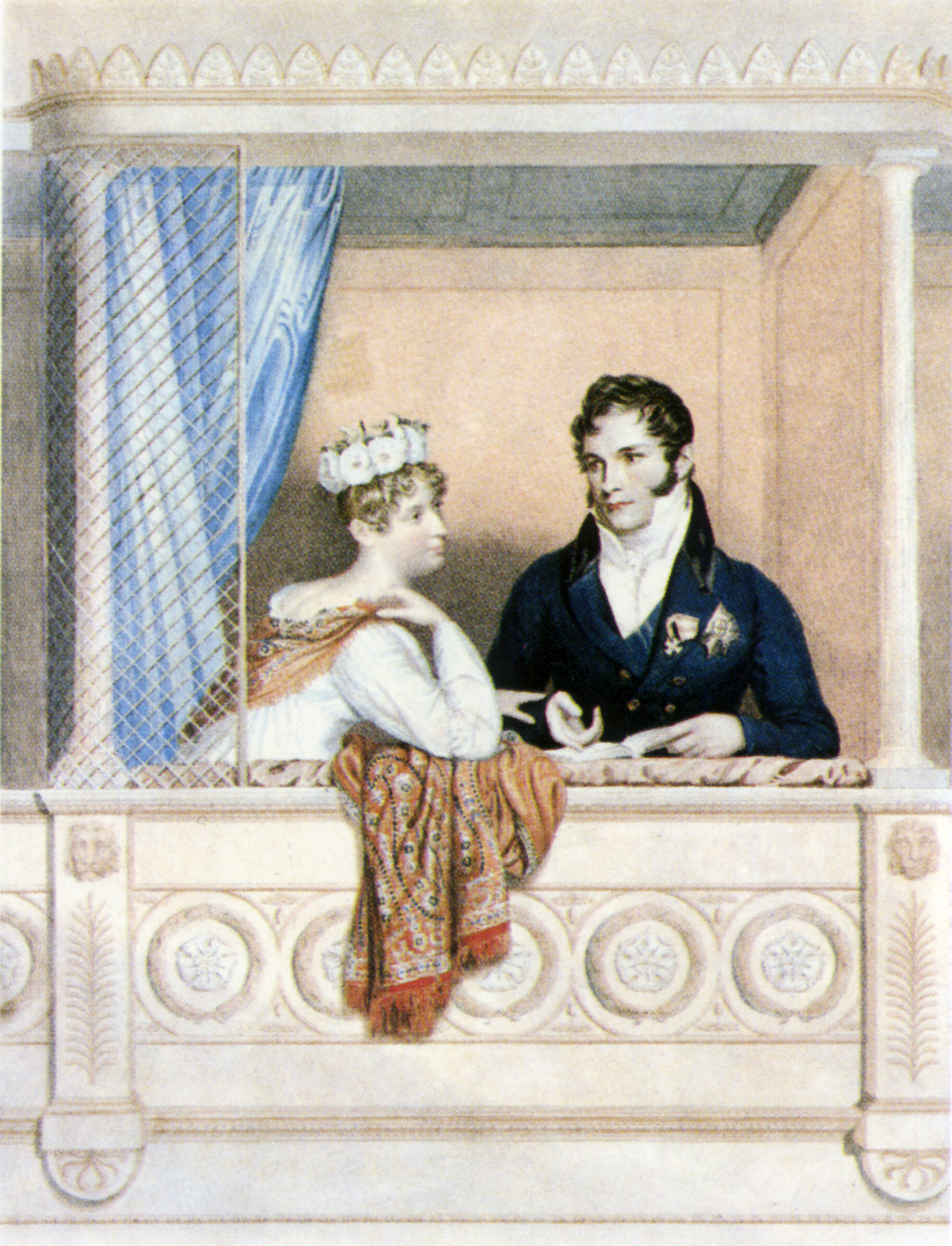 This image is a JPEG version of the original PNG image at File: Princess Charlotte Augusta of Wales and Leopold I after George Dawe.png. Generally, this JPEG version should be used when displaying the file from Commons, in order to reduce the file size of thumbnail images. However, any edits to the image should be based on the original PNG version in order to prevent generation loss, and both versions should be updated. Do not make edits based on this version. See here for more information. Princess Charlotte Augusta of Wales; Leopold I, by William Thomas Fry, after George Dawe, 1817. National Portrait Gallery: NPG 1530 While Commons policy accepts the use of this media, one or more third parties have made copyright claims against Wikimedia Commons in relation to the work from which this is sourced or a purely mechanical reproduction thereof. This may be due to recognition of the "sweat of the brow" doctrine, allowing works to be eligible for protection through skill and labour, and not purely by originality as is the case in the United States (where this website is hosted). These claims may or may not be valid in all jurisdictions. As such, use of this image in the jurisdiction of the claimant or other countries may be regarded as copyright infringement. Please see Commons:When to use the PD-Art tag for more information.See User:Dcoetzee/NPG legal threat for original threat and National Portrait Gallery and Wikimedia Foundation copyright dispute for more information. This tag does not indicate the copyright status of the attached work. A normal copyright tag is still required. See Commons:Licensing.